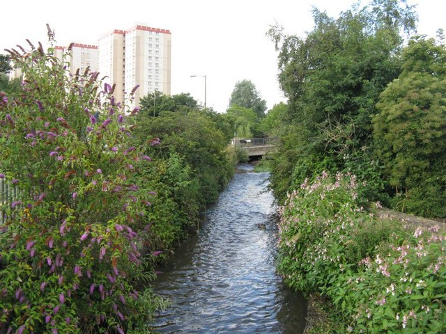 Burdiehouse Burn at Little France With Buddleja on the left and the sickly sweet smelling Himalayan Balsam, an invasive introduction along many watercourses, on the right.